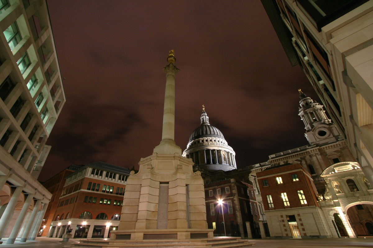 Paternoster Sauqre at night, 21st May 2006.